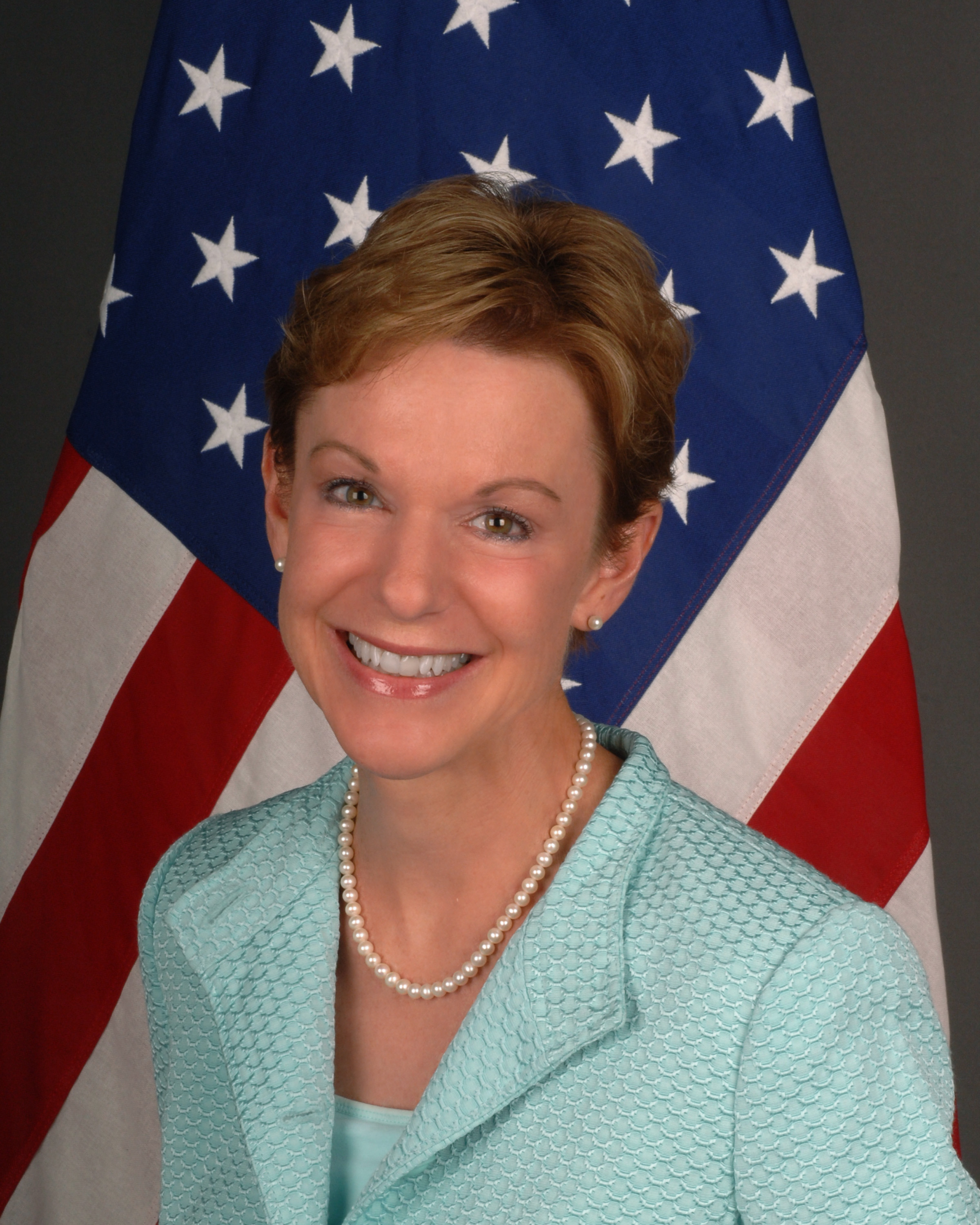 Photo of U.S. Ambassador to Thailand and career diplomat Kristie Ann Kenney.